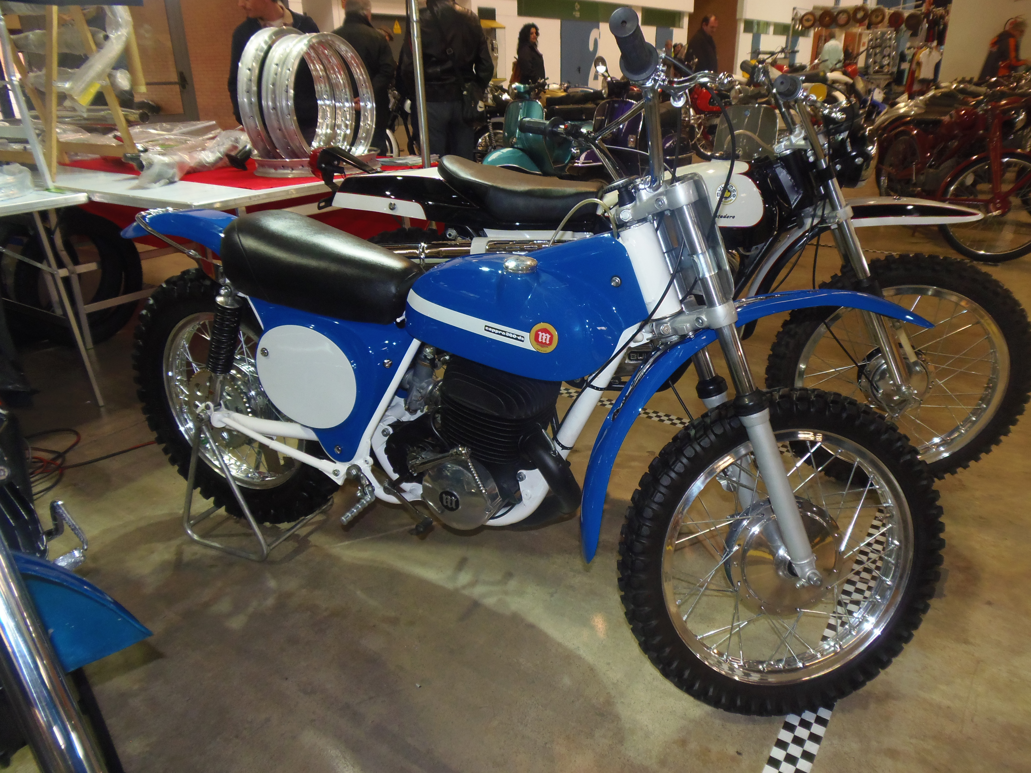 Montesa Cappra DS 360, 1969